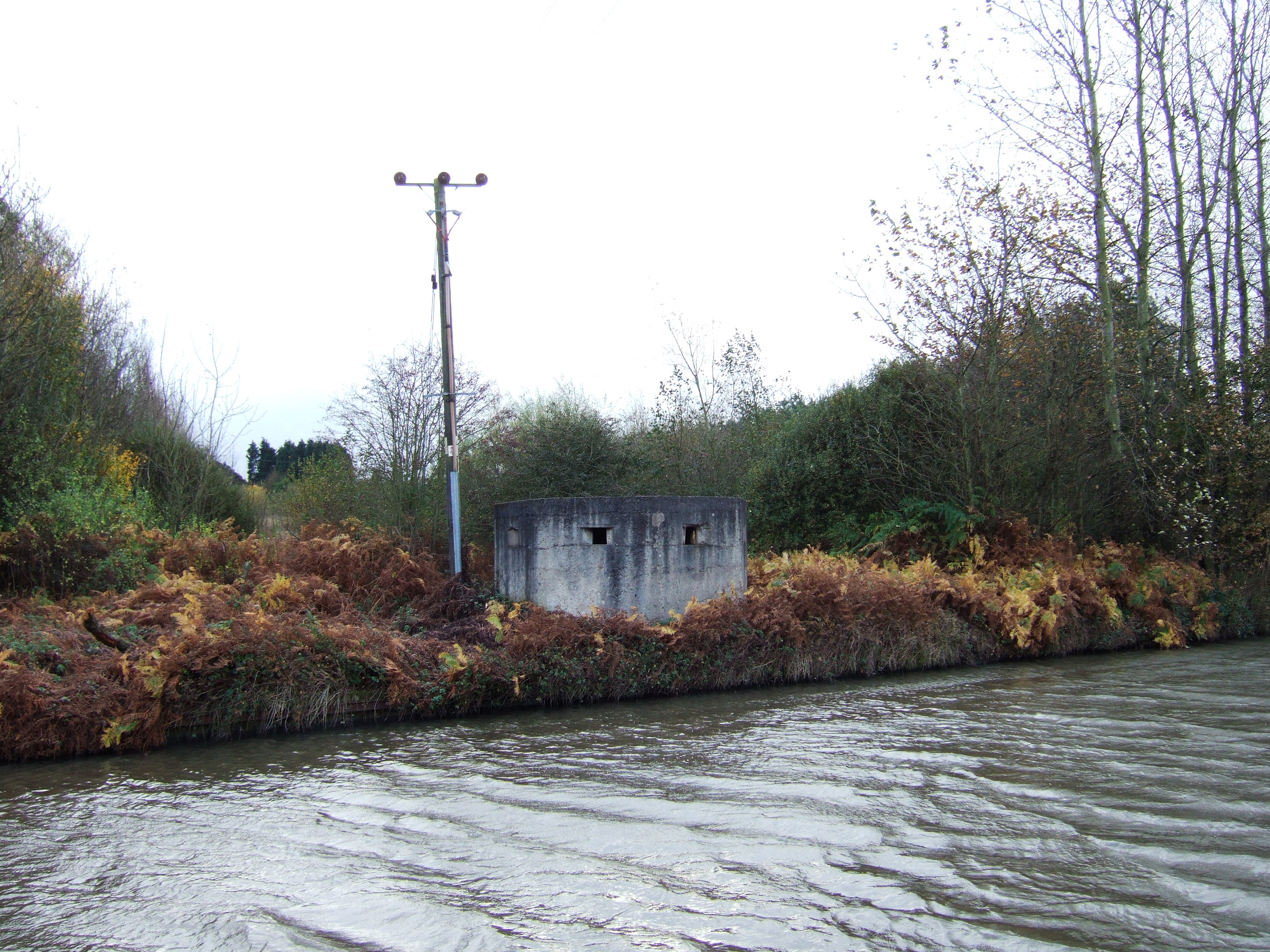 World War II pillbox on the Leeds and Liverpool canal, in Hoscar, Lancashire, England.